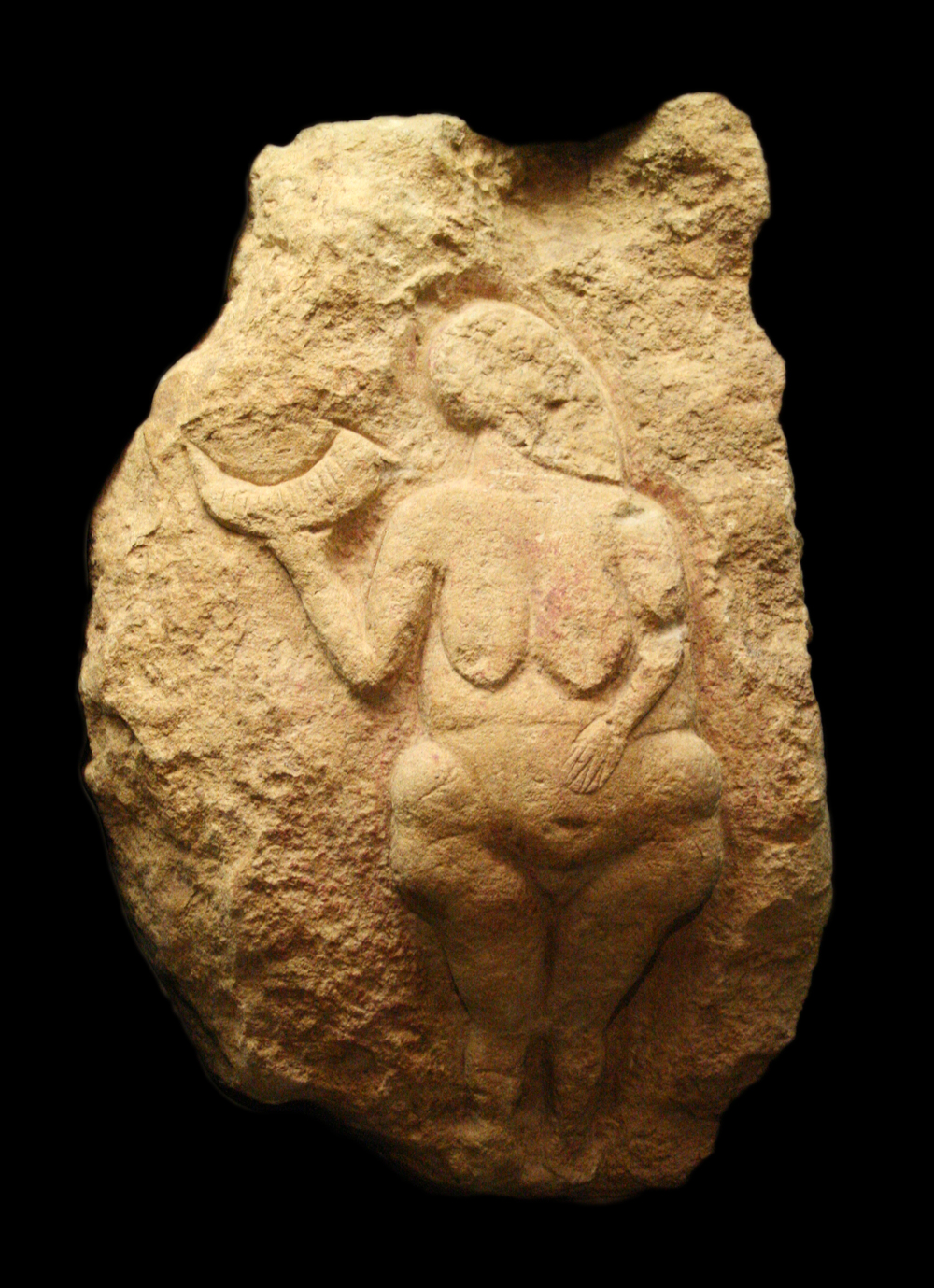 Venus of Laussel, picture of the original kept in Bordeaux museum, France (black background)